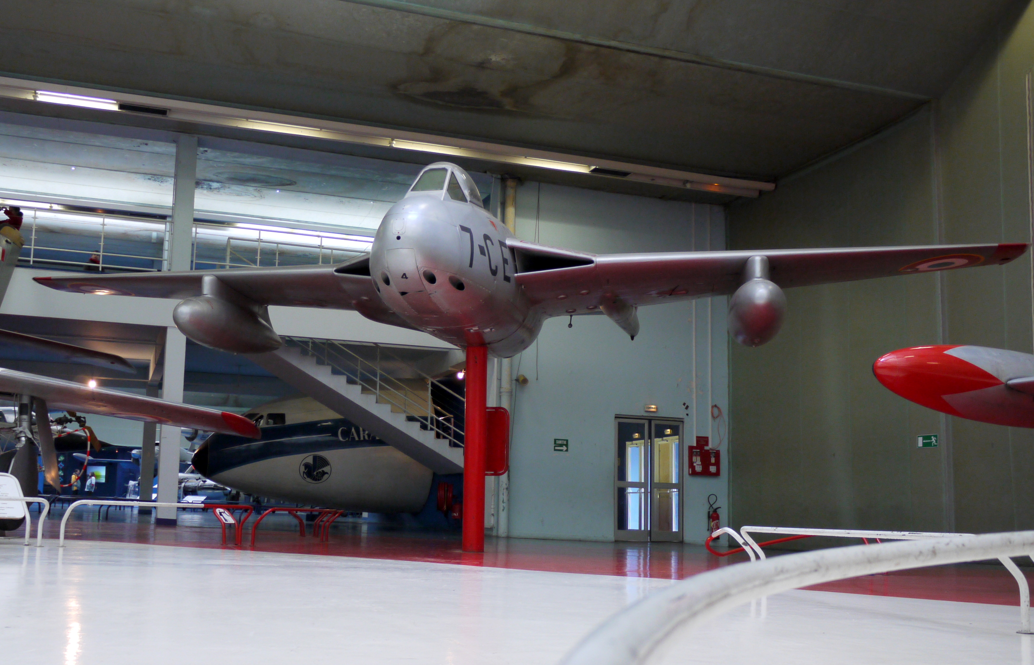 Mistral french version of the trainer aircraft Vampire (1951), Museum of Air and Space Paris, Le Bourget (France)